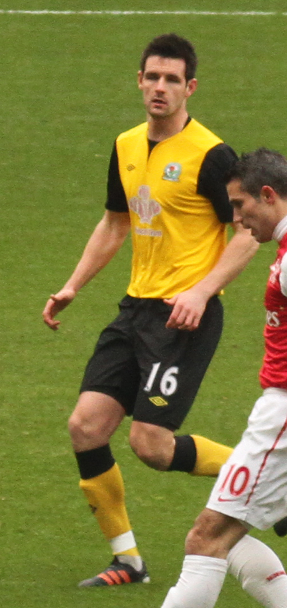 Scott Dann playing for Blackburn Rovers